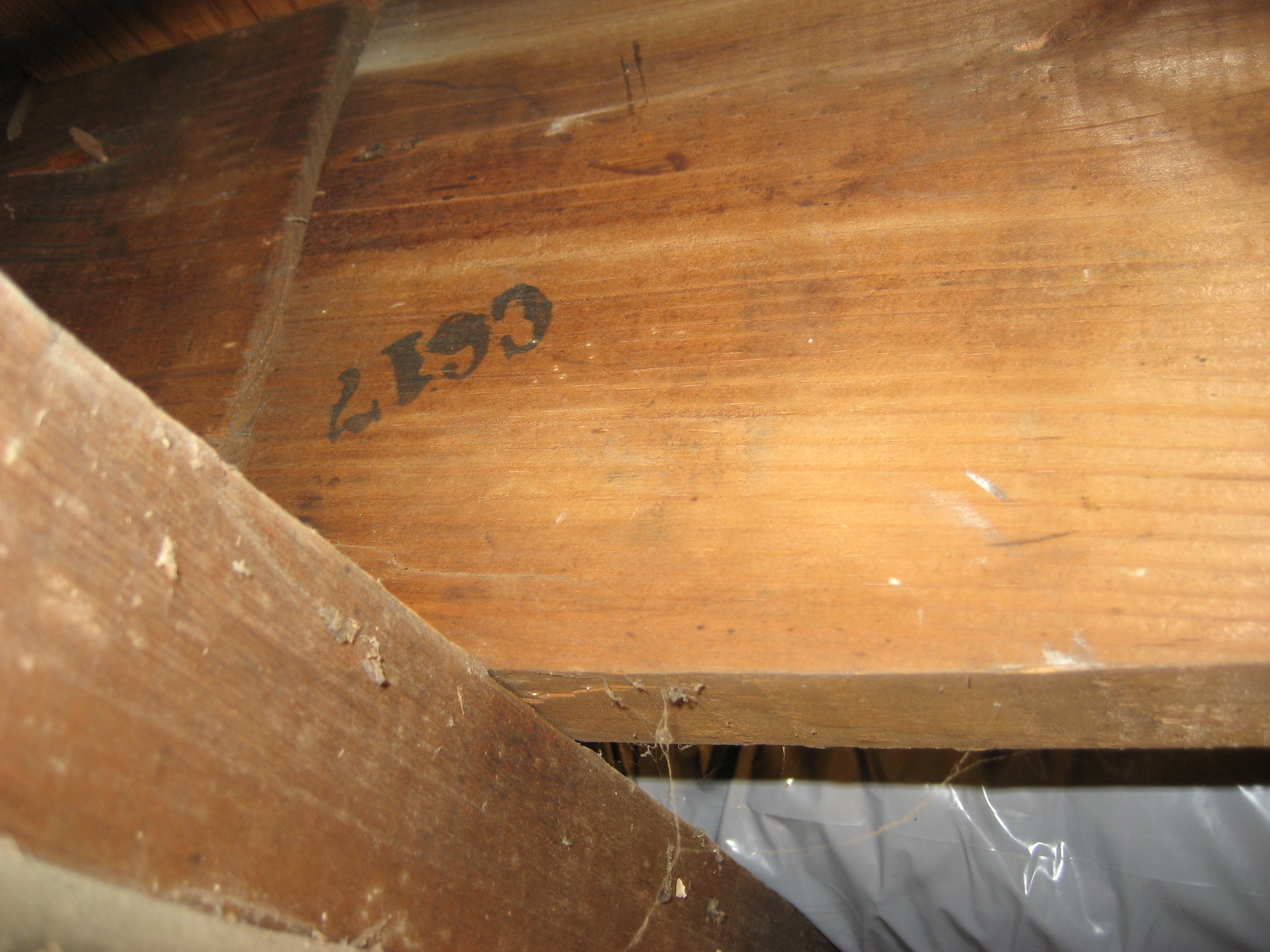 This photo shows stamped lumber from a Sears catalog house. The lumber was stamped to allow the kit house to be assembled based on the numbered lumber which corresponded to numbered pieces in the book of instructions for assembling the house.